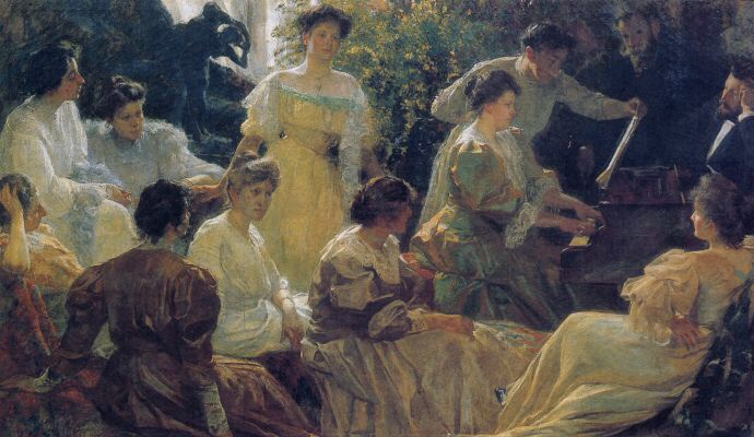 Sonata